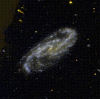 An ultraviolet image of NGC 5398 taken with GALEX. Credit: GALEX/NASA.